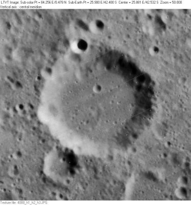 Nicolai lunar crater - image LO-IV-088H